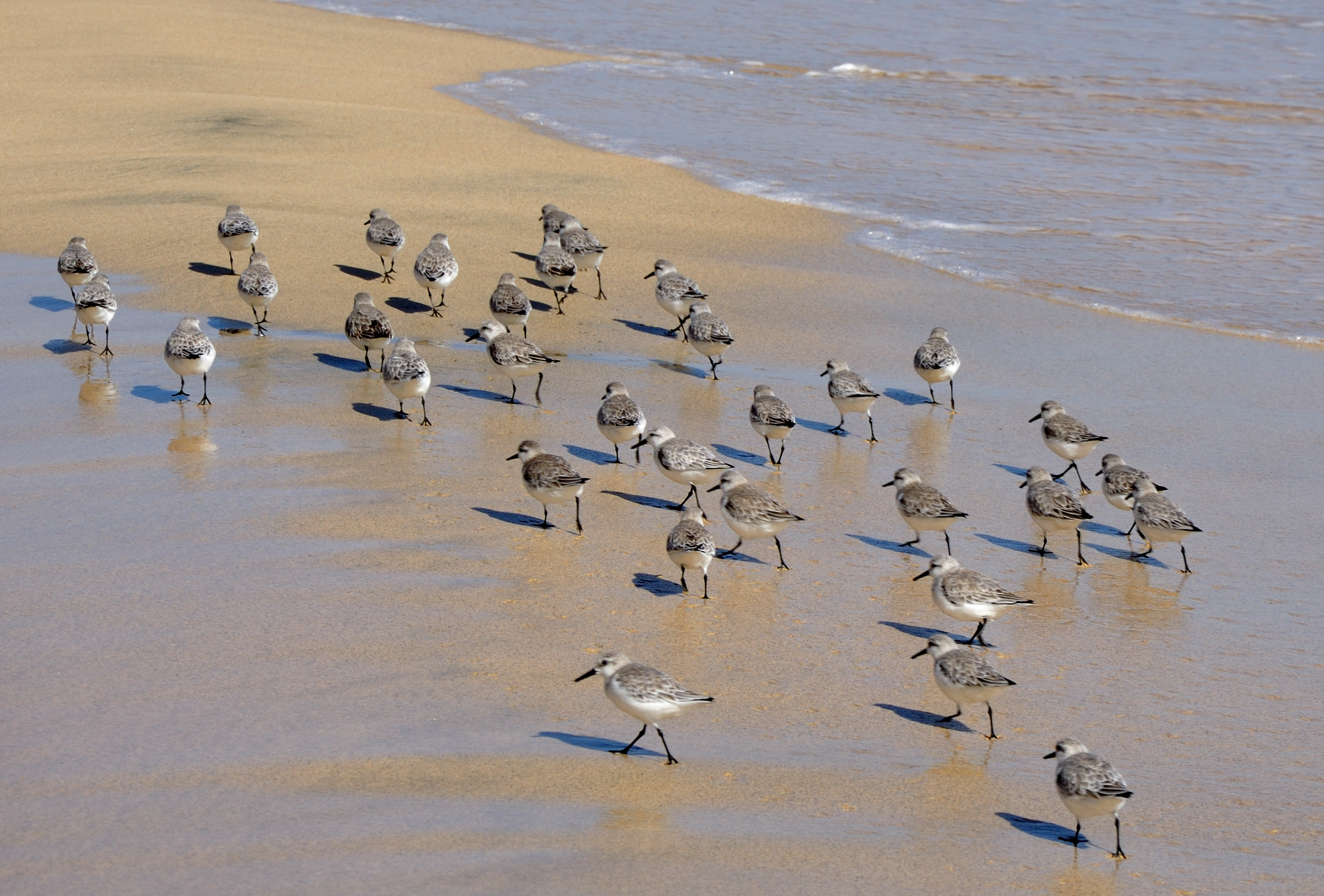 Spain, birds on the beach in Fuerteventura